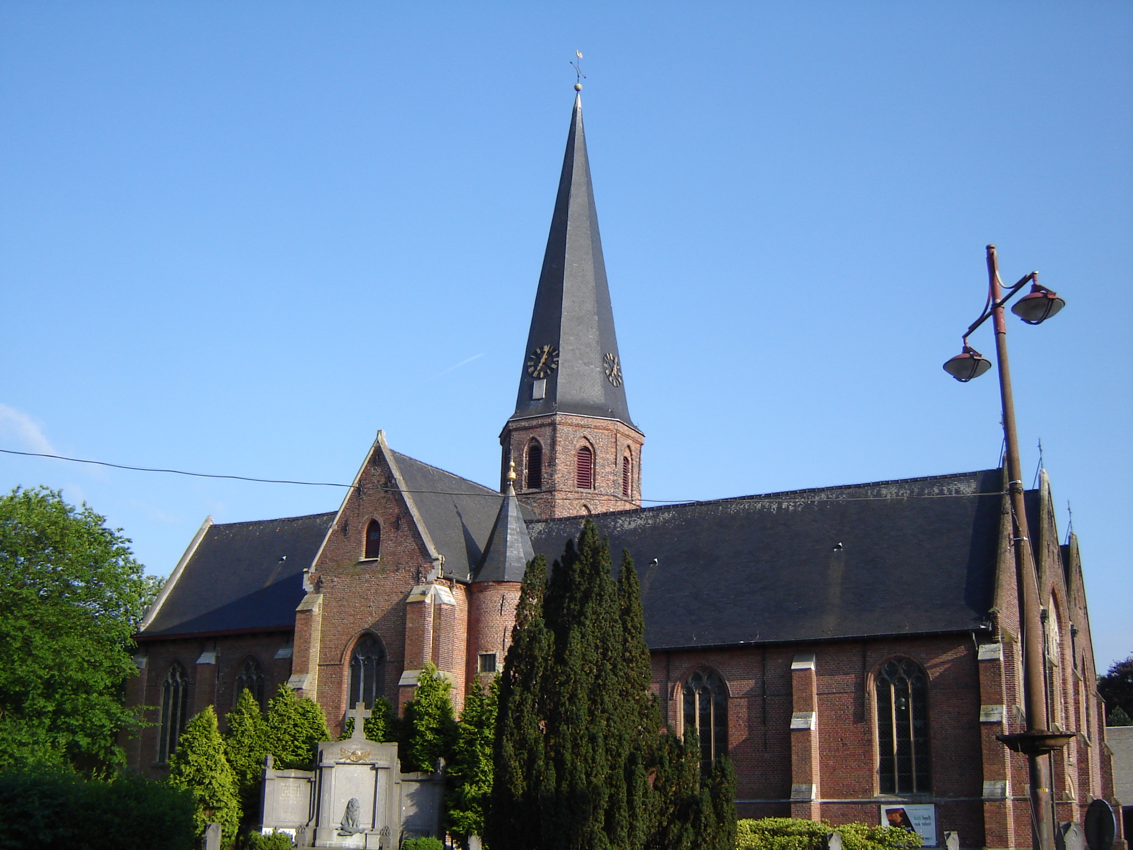 Church of Saint Catherine in Wachtebeke. Wachtebeke, East Flanders, Belgium